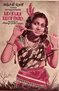 Poster for the 1951 South Indian Tamil film Mayamalai